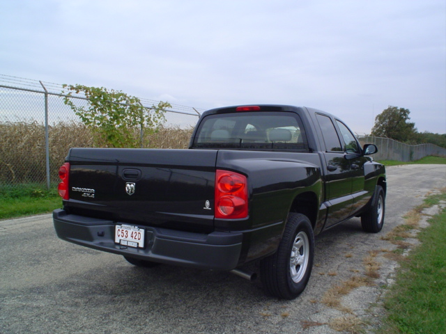 2008 Dodge Dakota ST 4-door pickup, photographed in USA.